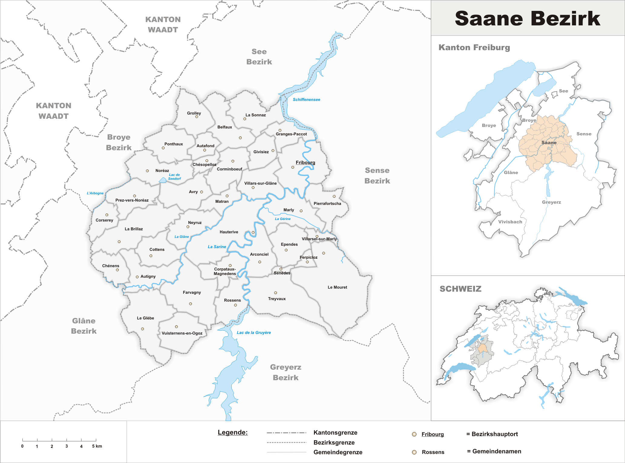 Municipalities in the district of Saane